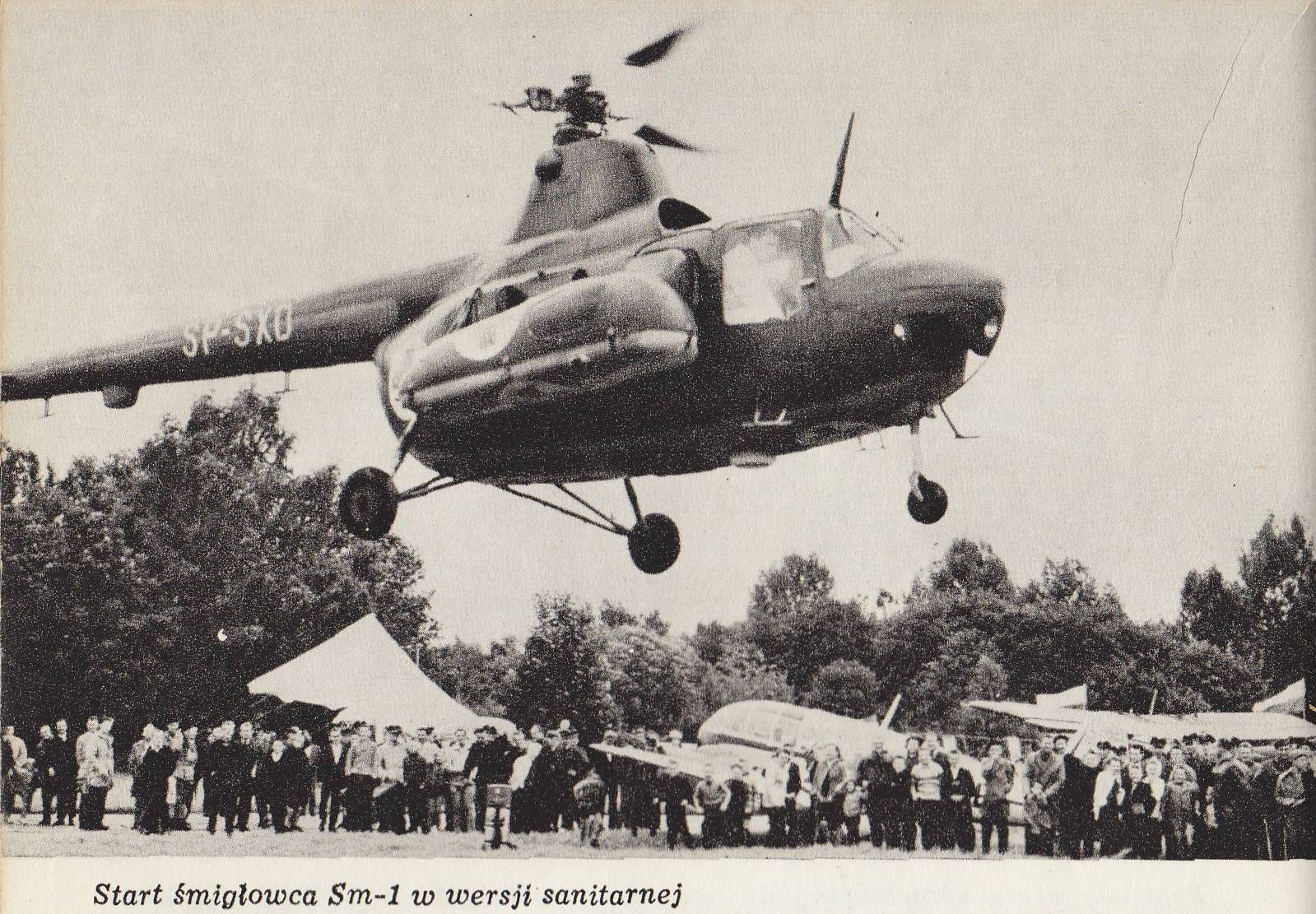 Mil Mi 1 helicopter (Produced in Poland as Sm 1) - air rescue version (SP-SXD)